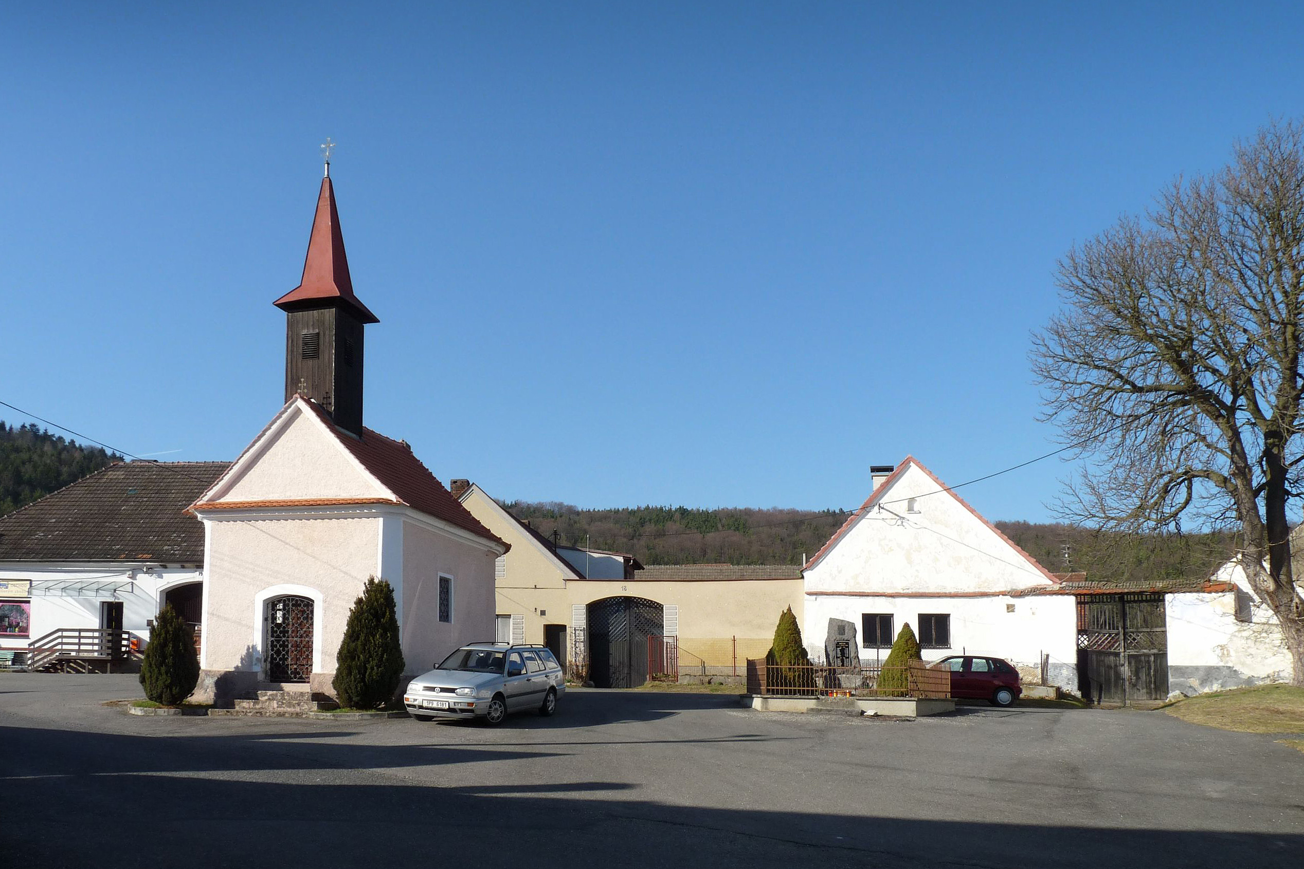 Chapel in the village of Čepice, Klatovy District, Czech Republic